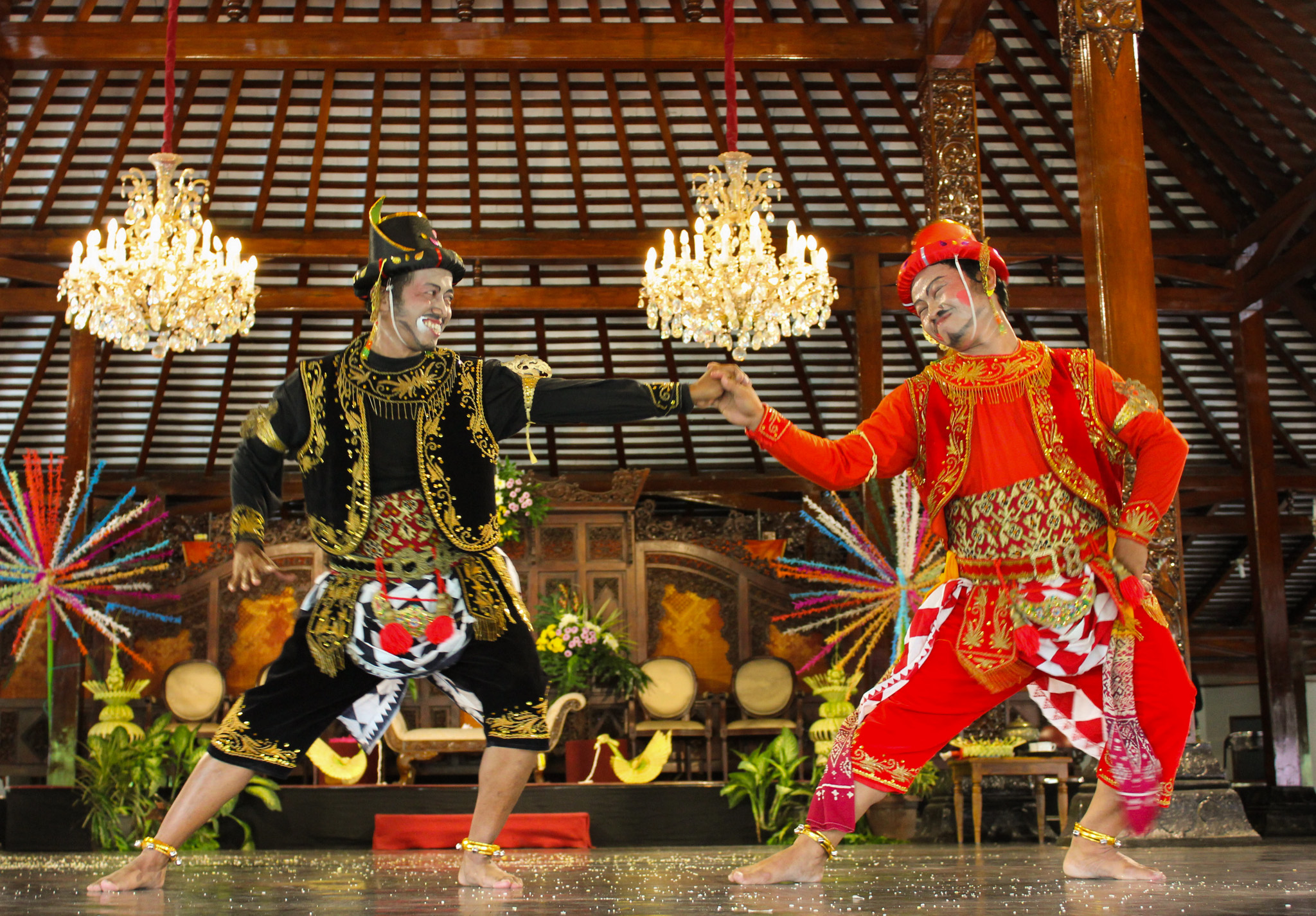 Two dancers performing a dance as a part of Banyumasan cultures in an official wedding ceremony.